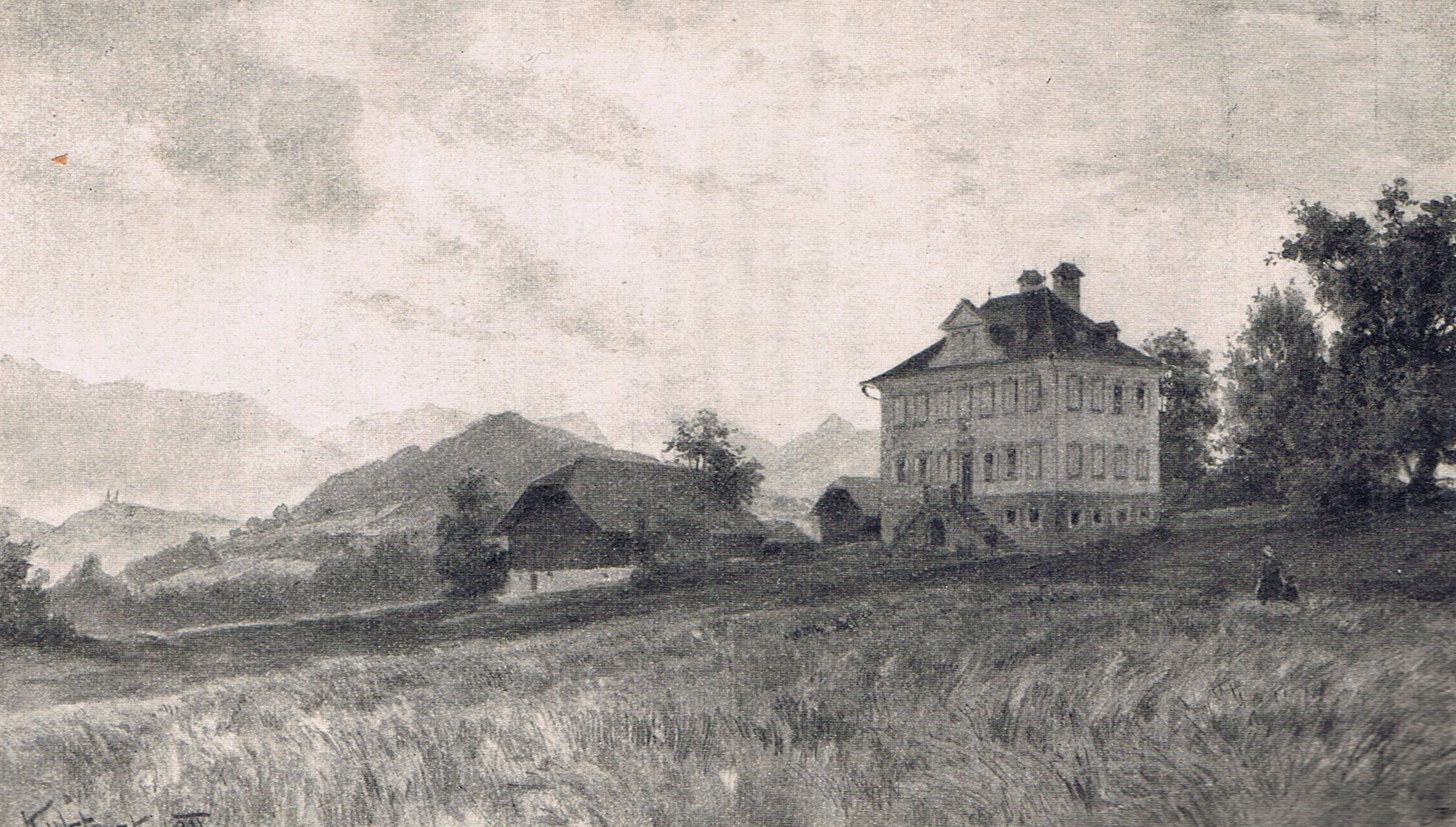 A drawing of the Palace of Ursprung in Salzburg Austria